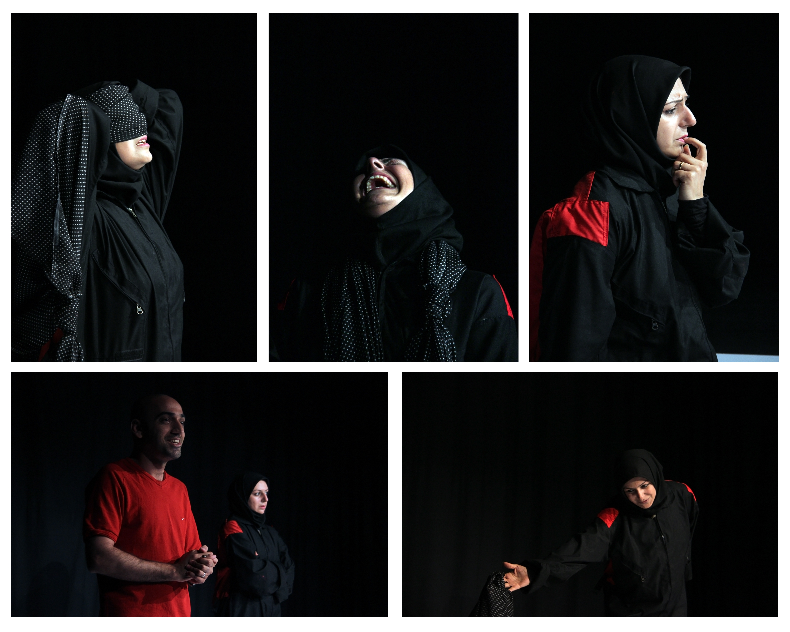 Collage is a technique of an art production, primarily used in the visual arts, where the artwork is made from an assemblage of different forms, thus creating a new whole.